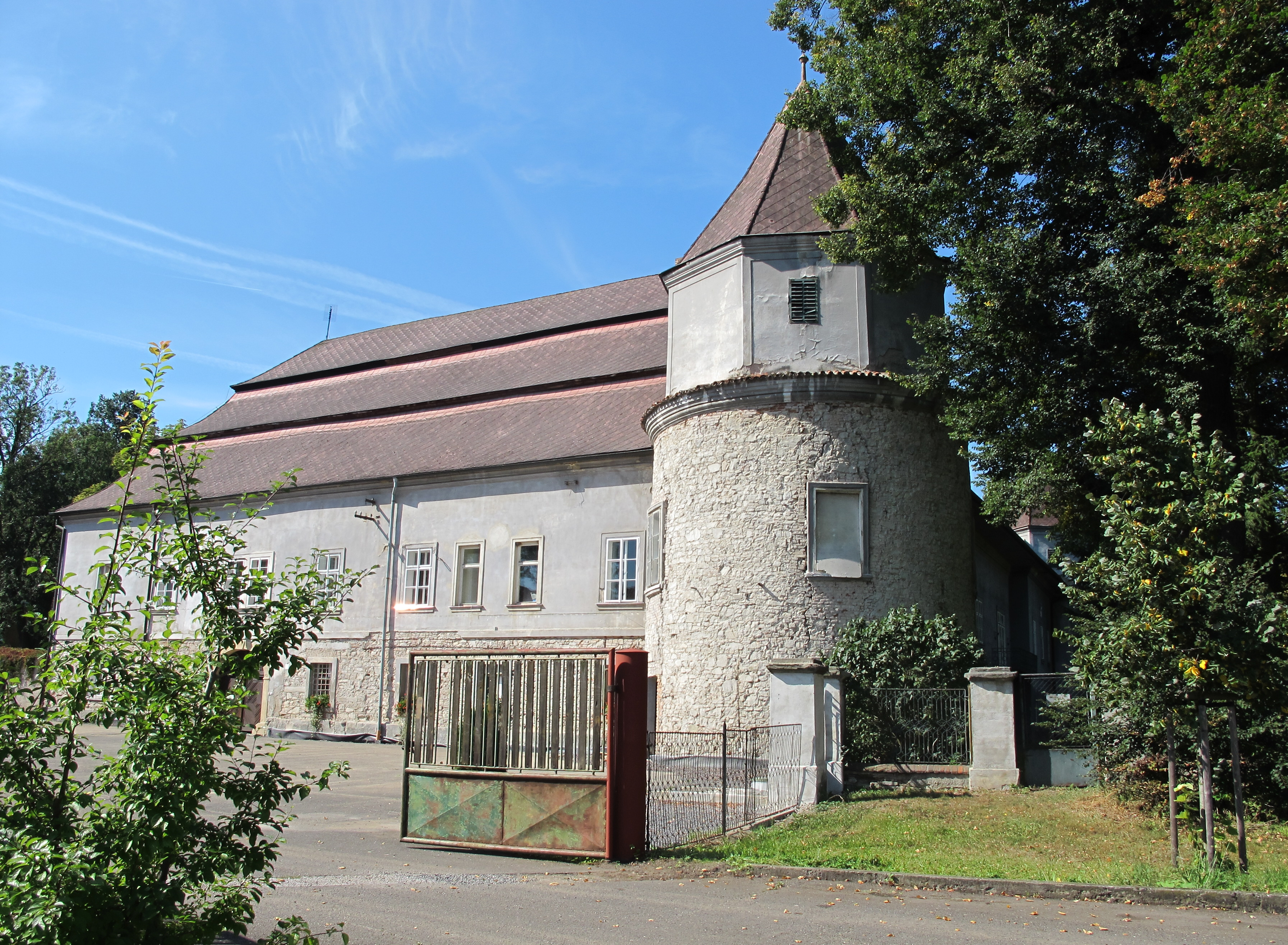 Castle in Lochovice, Beroun District in Czech Republic